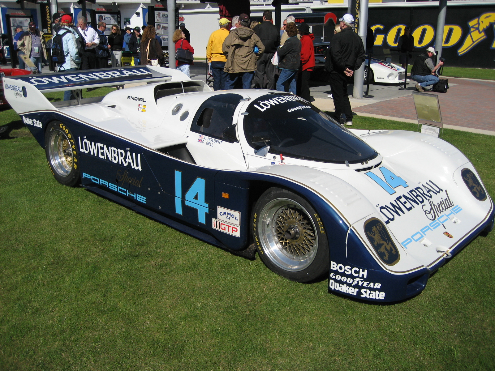 Photograph taken by myself at the 2007 24 Hours of Daytona in a historical display. Lowenbrau Porsche 962C.